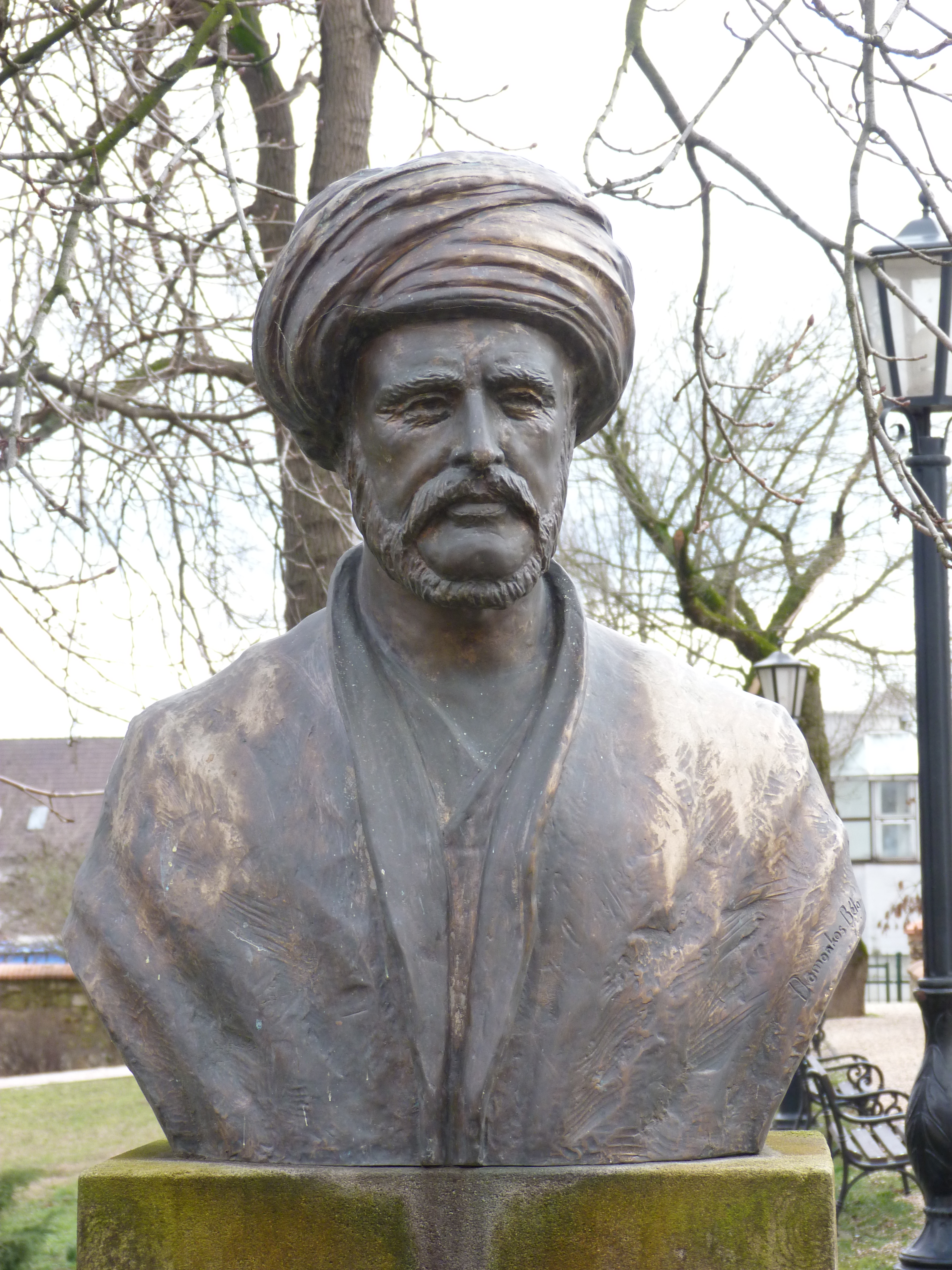 Vámbéry Ármin. Magyar Földrajzi Múzeum, Érd, Hungary.